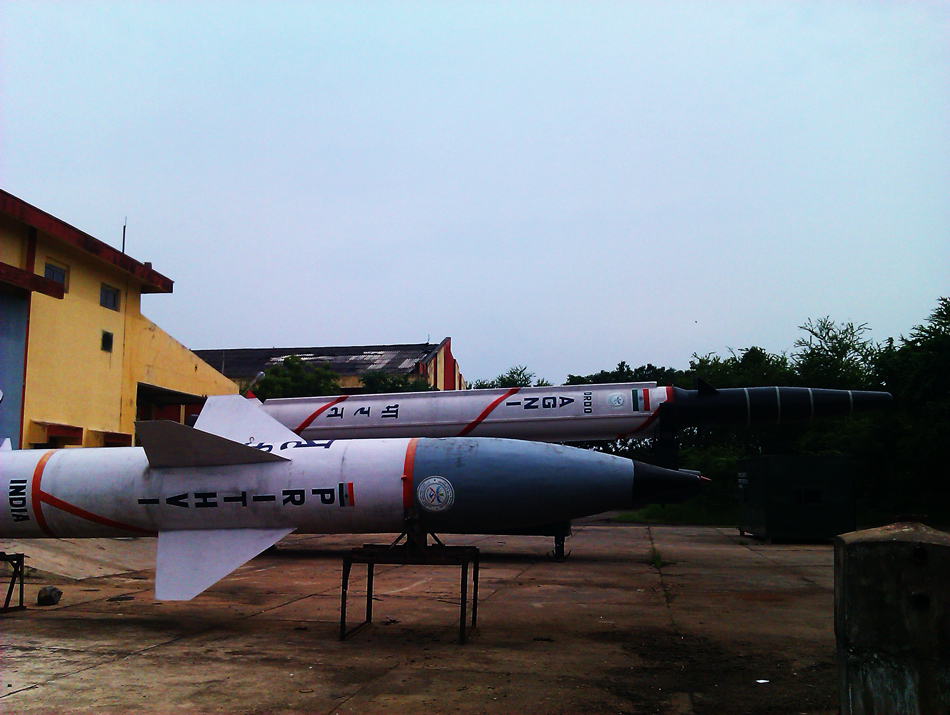 Model of Agni and Prithvi at Chandipur, Balasore.